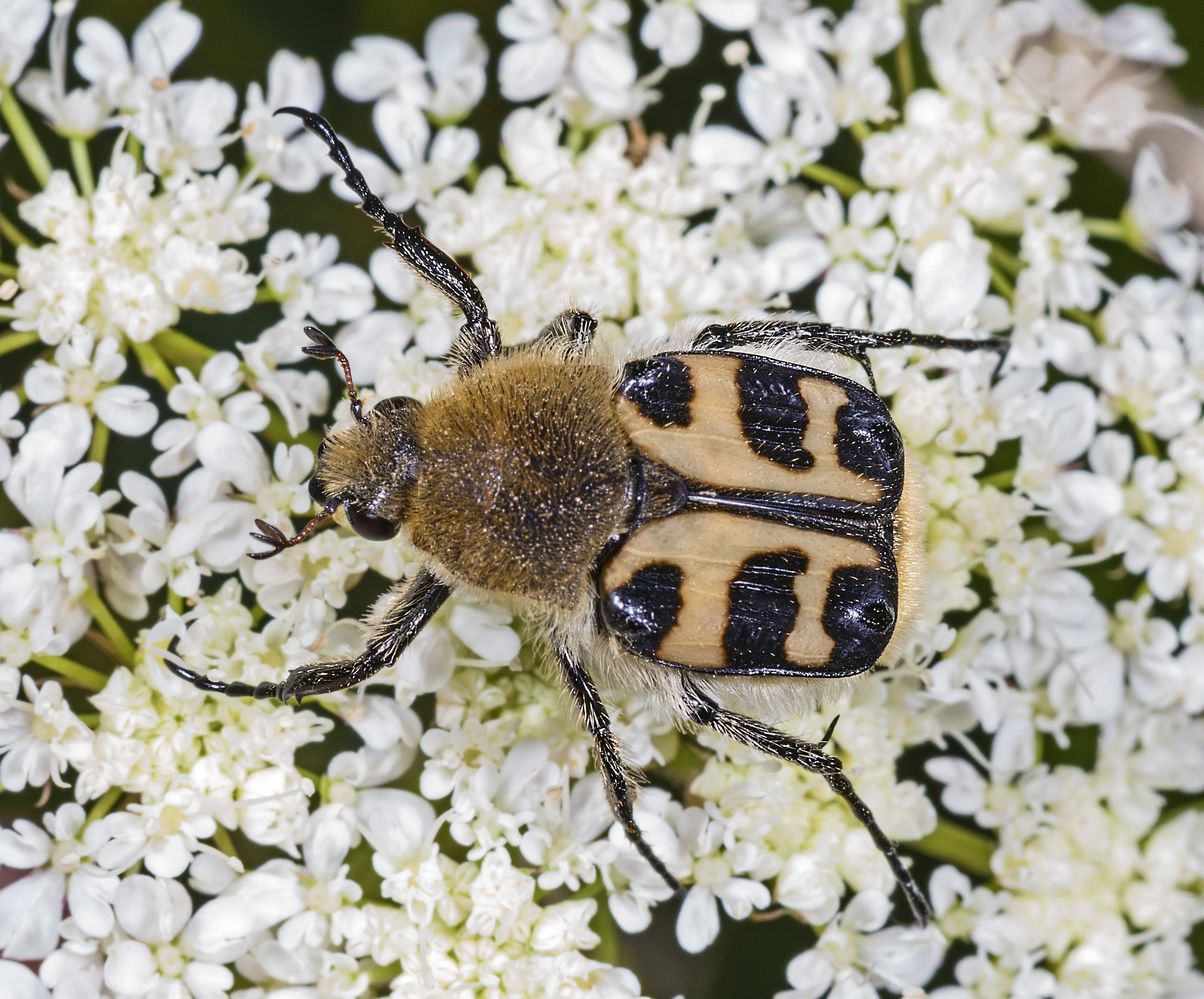 Bee beetle